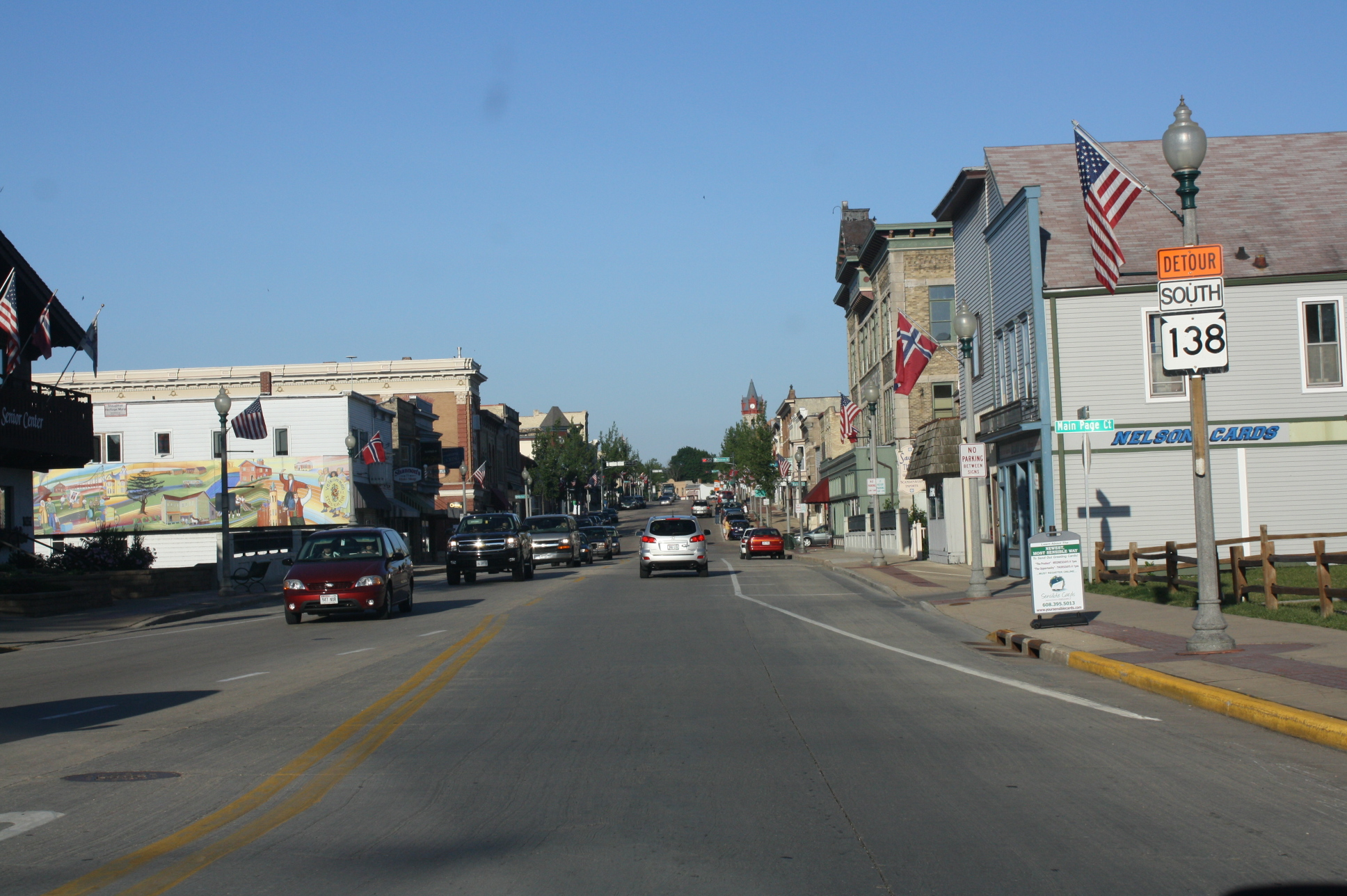 Looking east at downtown Stoughton, Wisconsin on U.S. Route 51. It is listed as a historic district called the Stoughton Main Street Commercial Historic District.